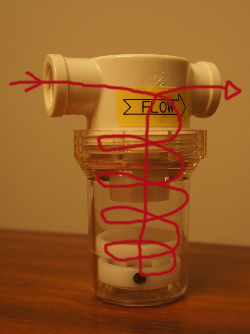 First model of a Cyclonic flow meter. Shown at the ISA/95 New Orleans, ISA/96 Chicago, Instrument Society of America exhibition